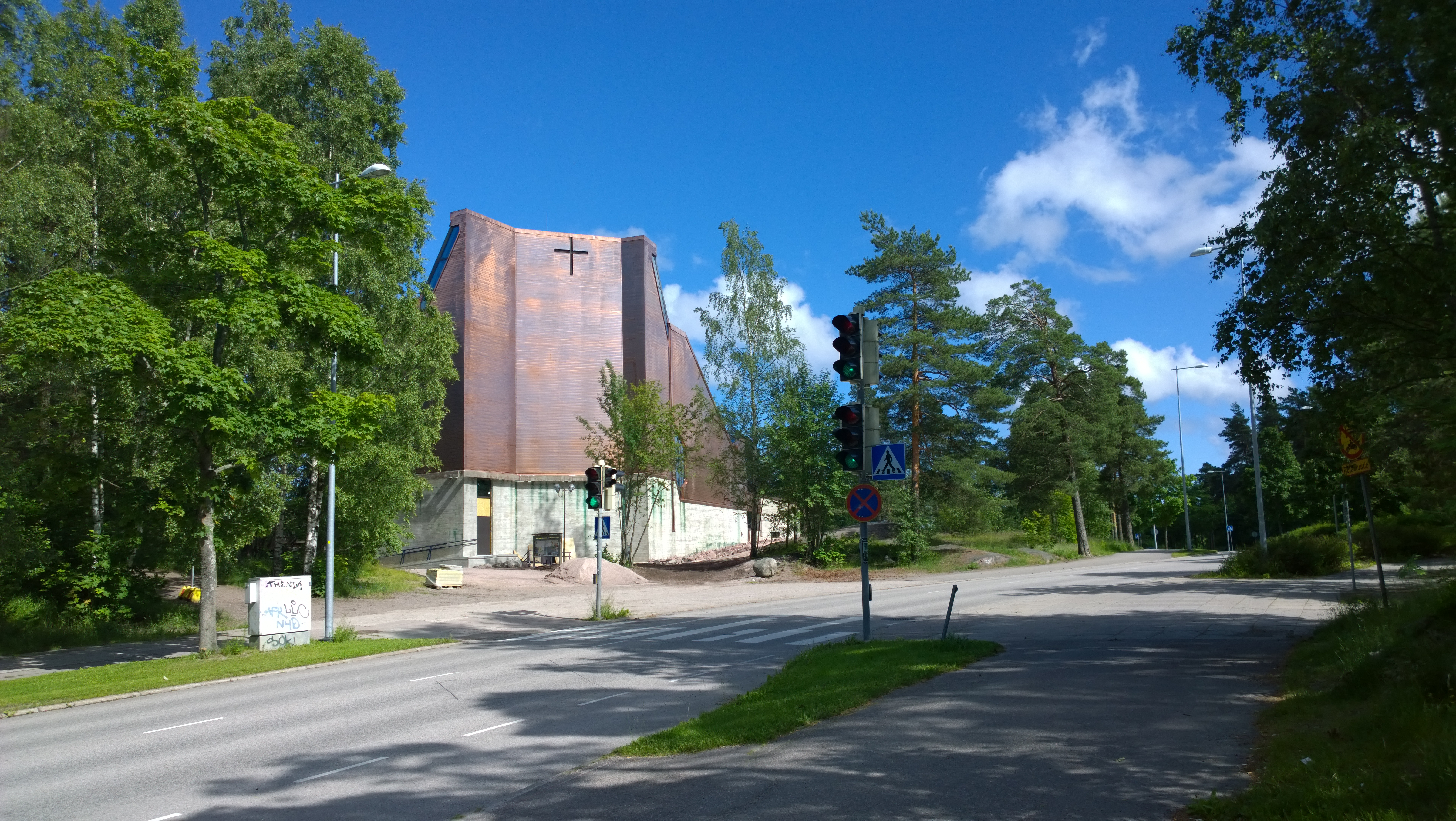 Espoonlahti Church, the first sight of the West facade when walking southwards on Kipparinkatu.